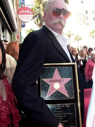 George Tickner Journey's co-founder at Hollywood Walk of Fame induction.